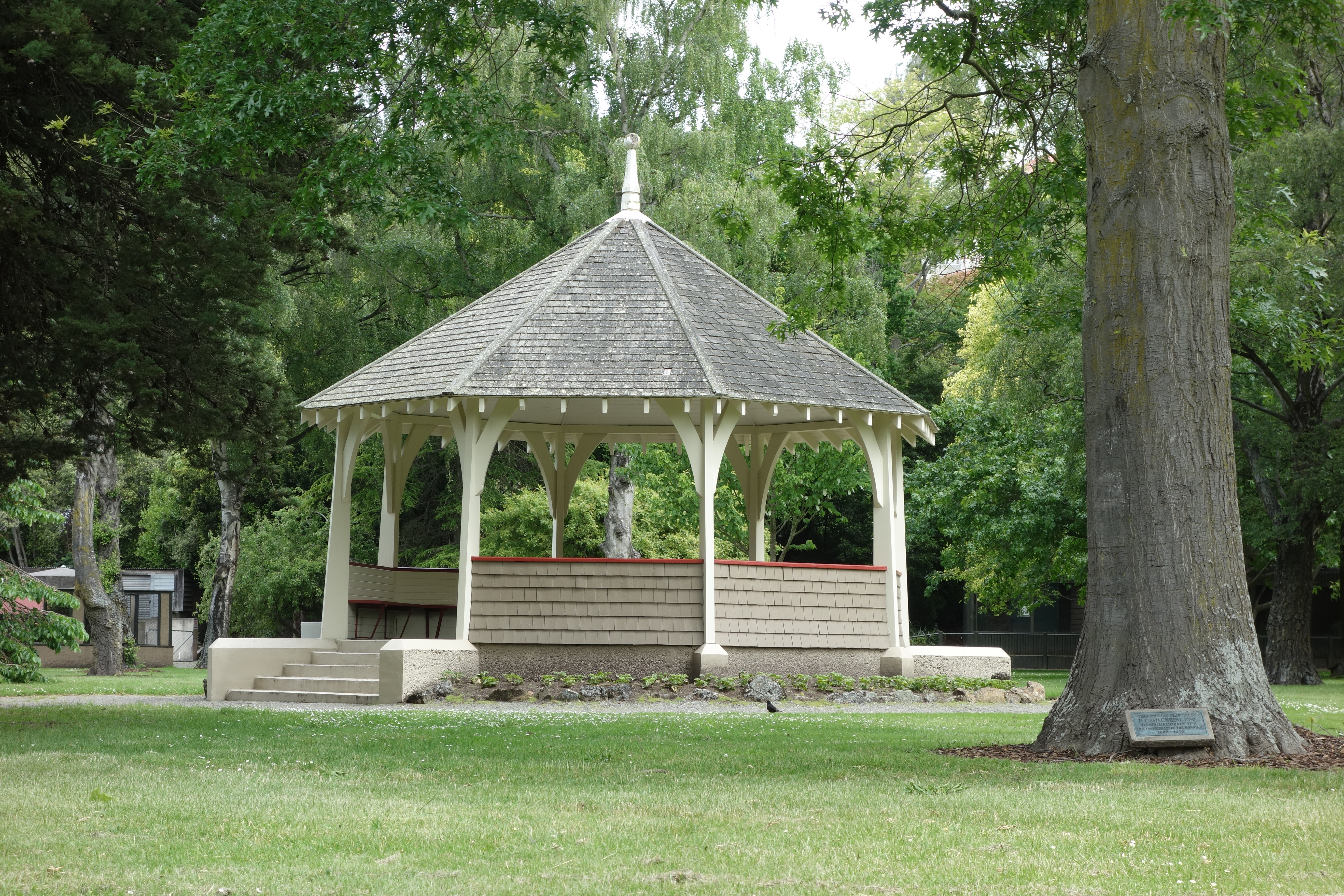 Oamaru Public Gardens - Band Rotunda (heritage registration 7154)